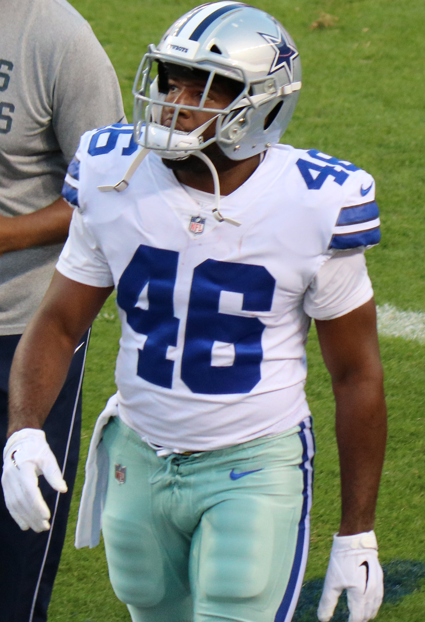 Alfred Morris, a player on the National Football League.